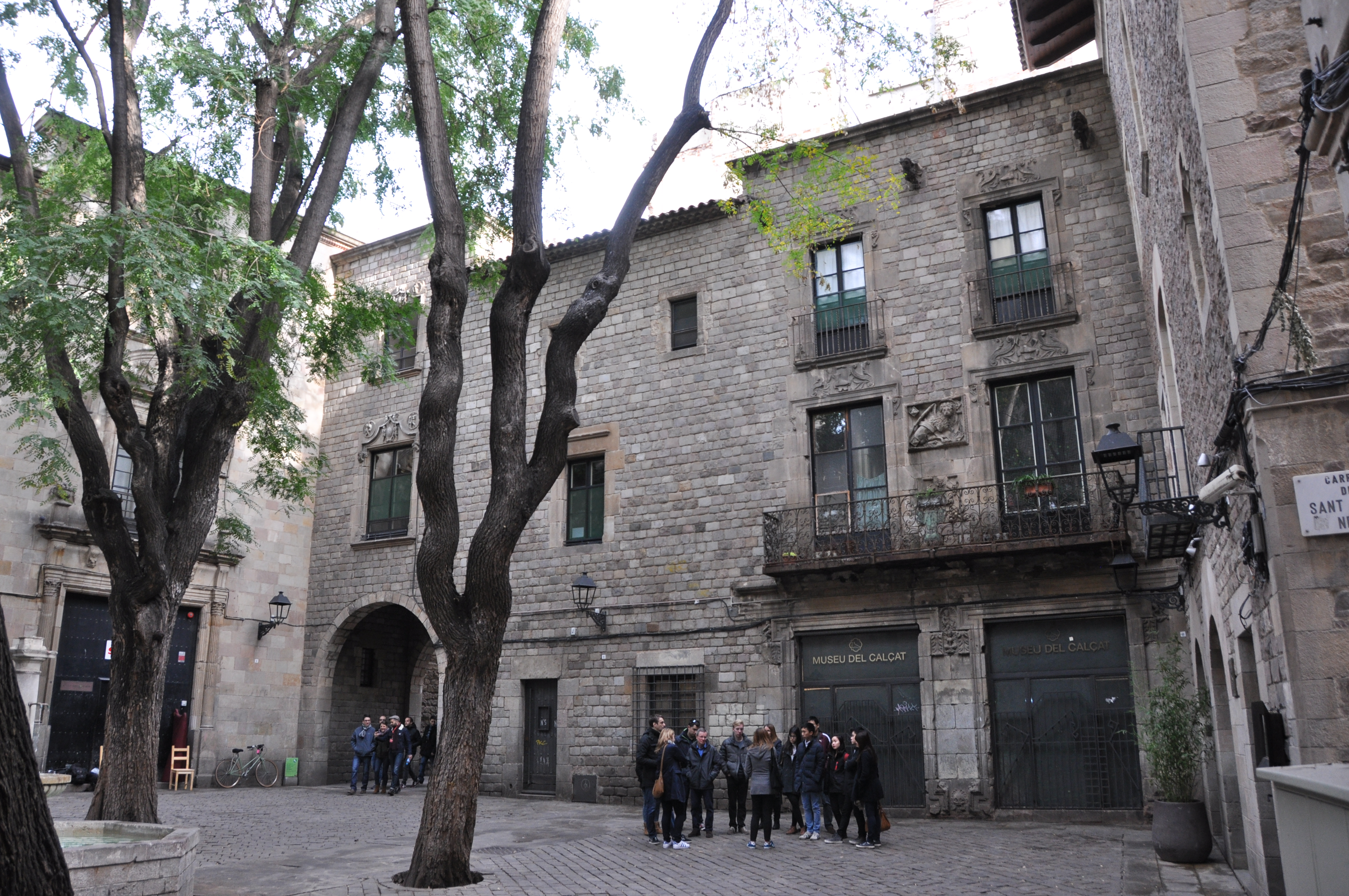 Barcelona Shoe Museum Shoemakers guild house rebuilt in plaça sant felip neri